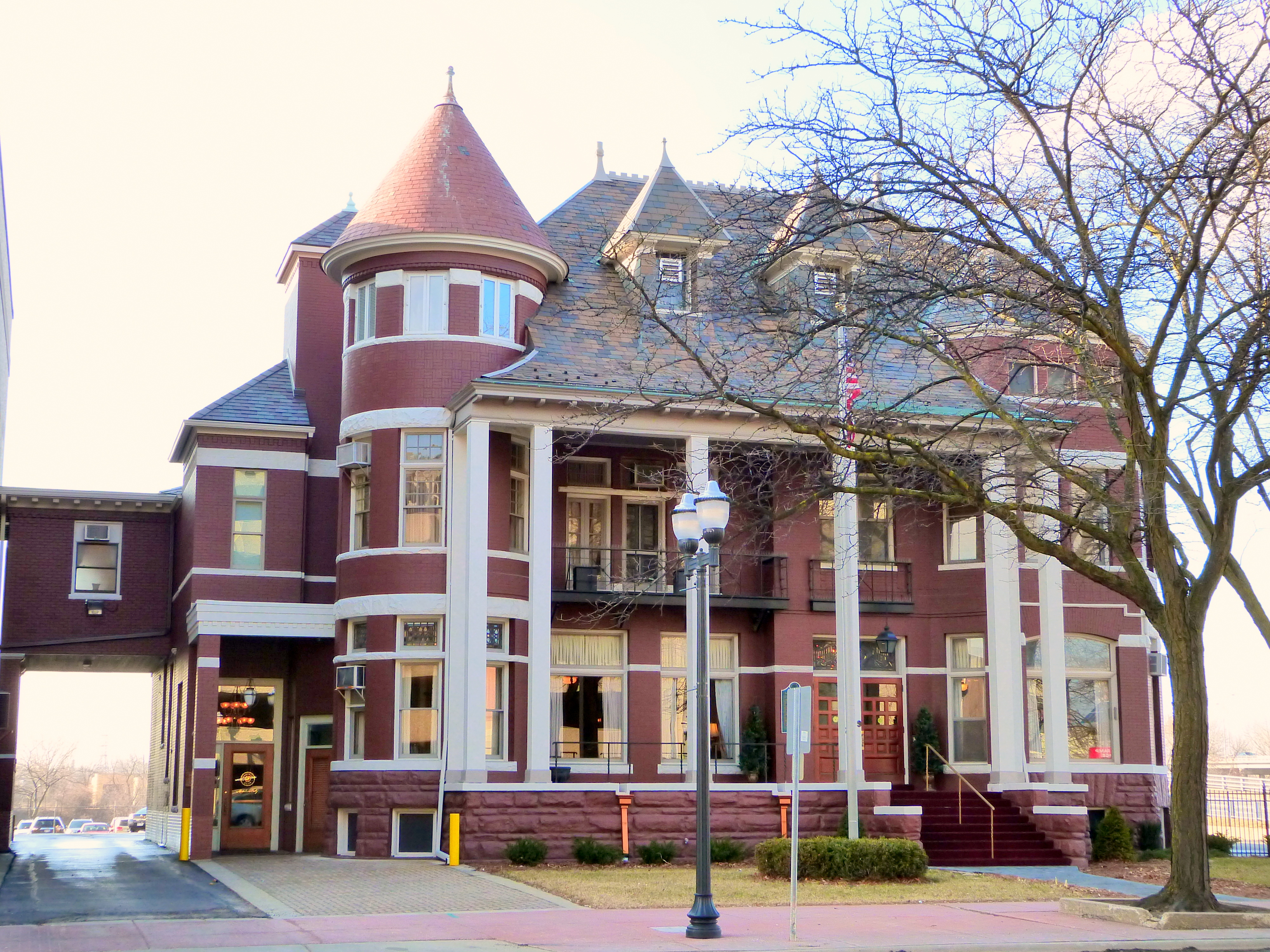 The historic Saginaw Club (built 1889), located at 219 North Washington Avenue in Saginaw, Michigan, United States, is listed as a contributing ("pivotal") resource in the East Saginaw Historic Business District. The historic district is listed on the U.S. National Register of Historic Places.